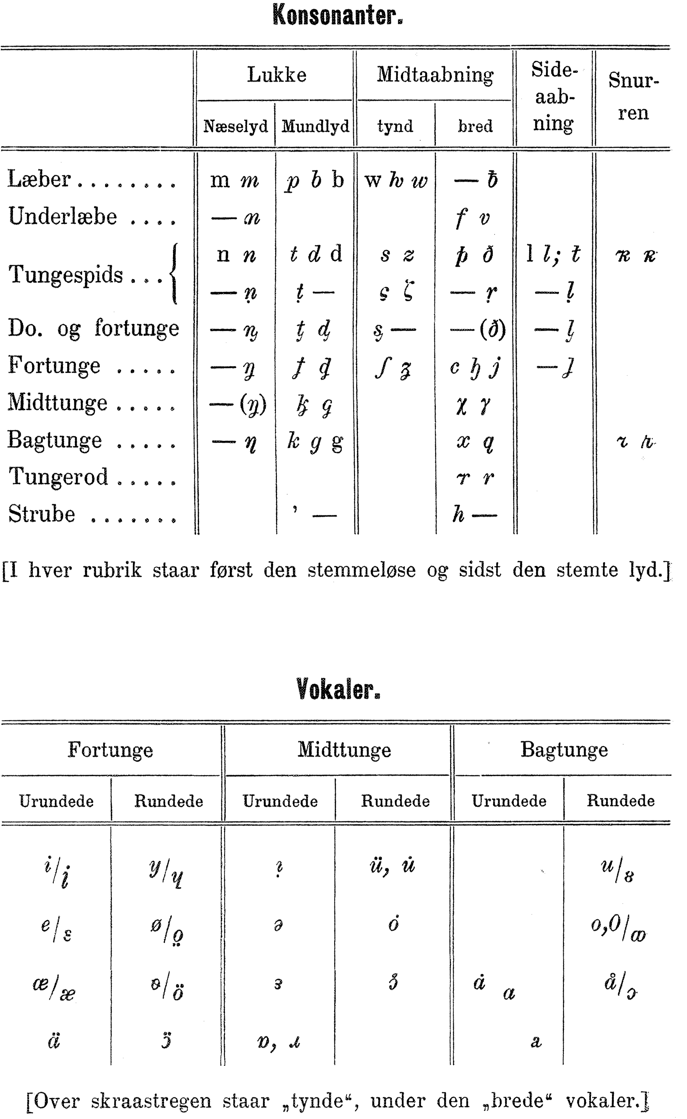 Otto Jespersen, “Danias lydskrift”, Dania, København: Lybecker & Meyer. 1890-92, vol. 1, p. 40